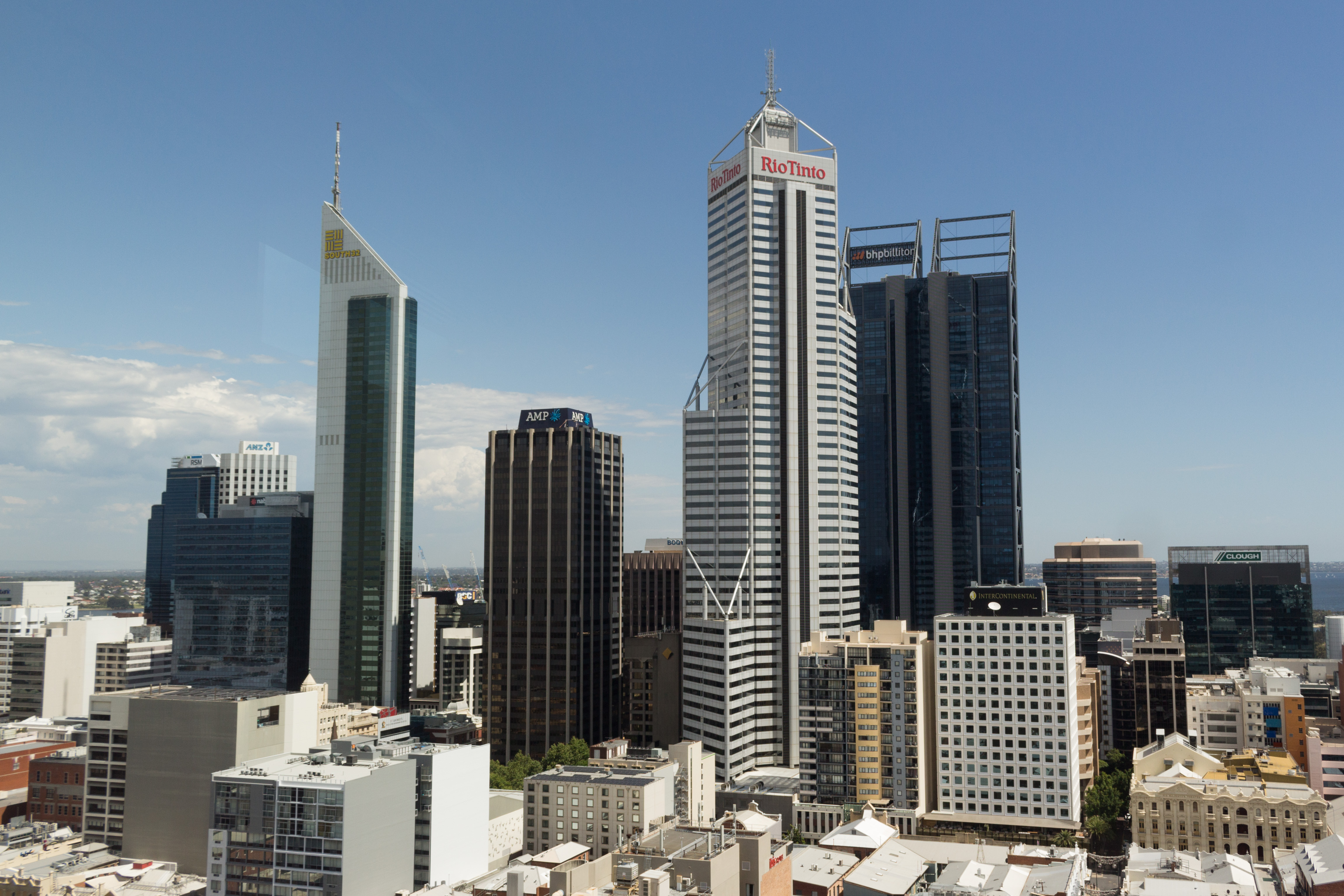 Perth skyline from the north. Photographed from KS1 (556 Wellington St). Photographed through glass window (some reflections noticeable over 108 St Georges Terrace building).